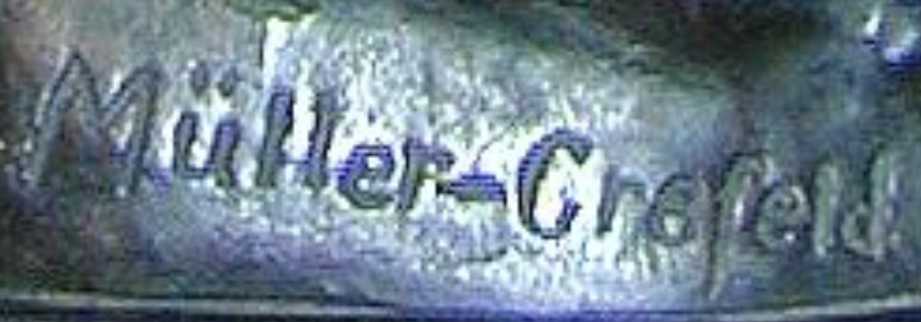 Adolf Müller-Crefeld's signature